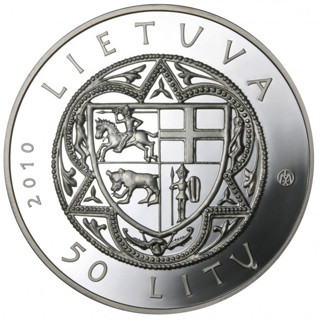 Denomination 50 litas Silver Ag 925 Diameter 38.61 mm Weight 28.28 g Quality proof Mintage 10,000 pieces